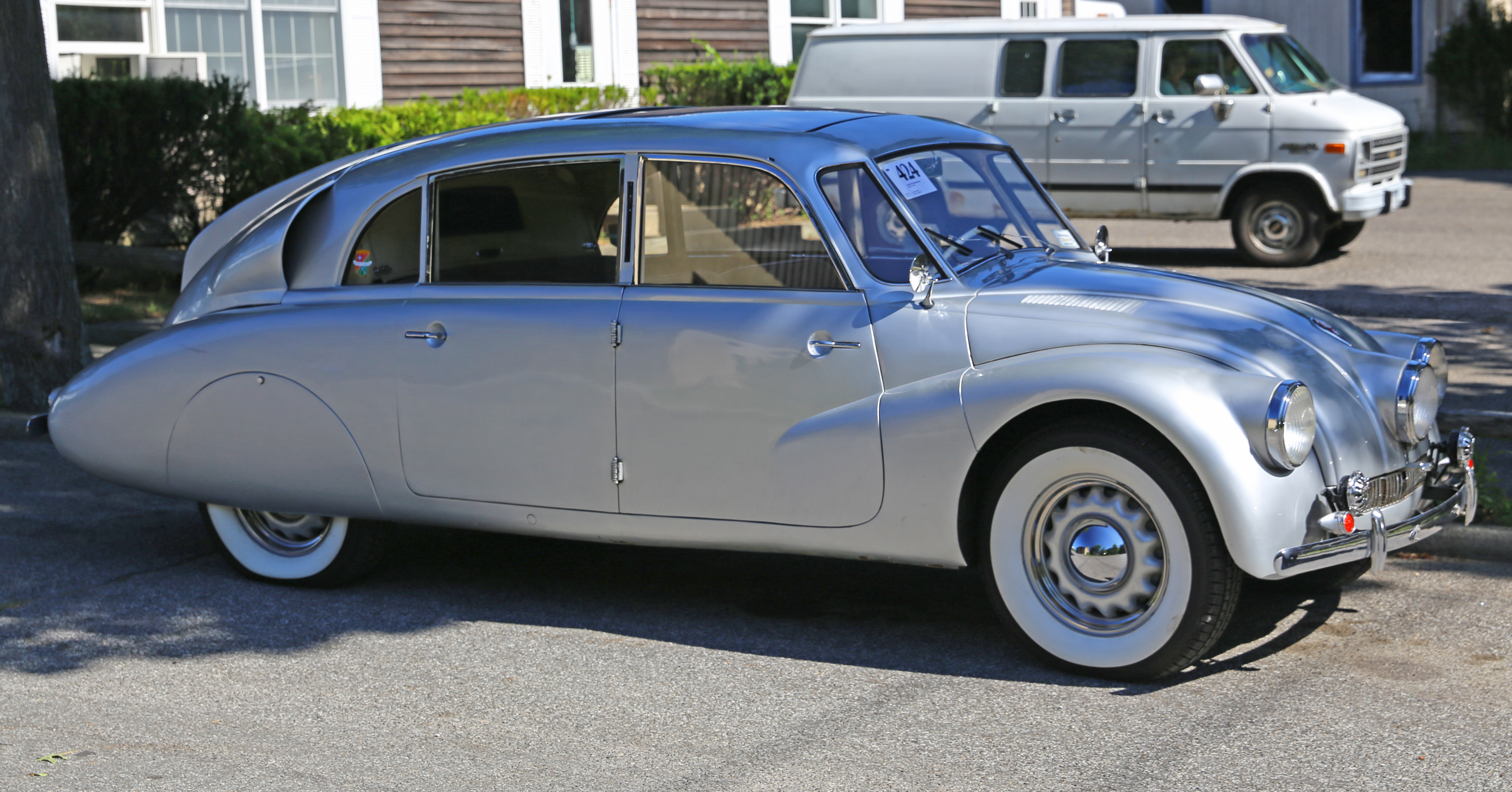 1941 Tatra T87, s/n 49870 and engine no 12786345. This car sold at the Bonhams auction in Carmel nearly one year earlier (for $280,000) but was still wearing its tags from that time. Used to belong to Martin Swig, who organized the California Mille.